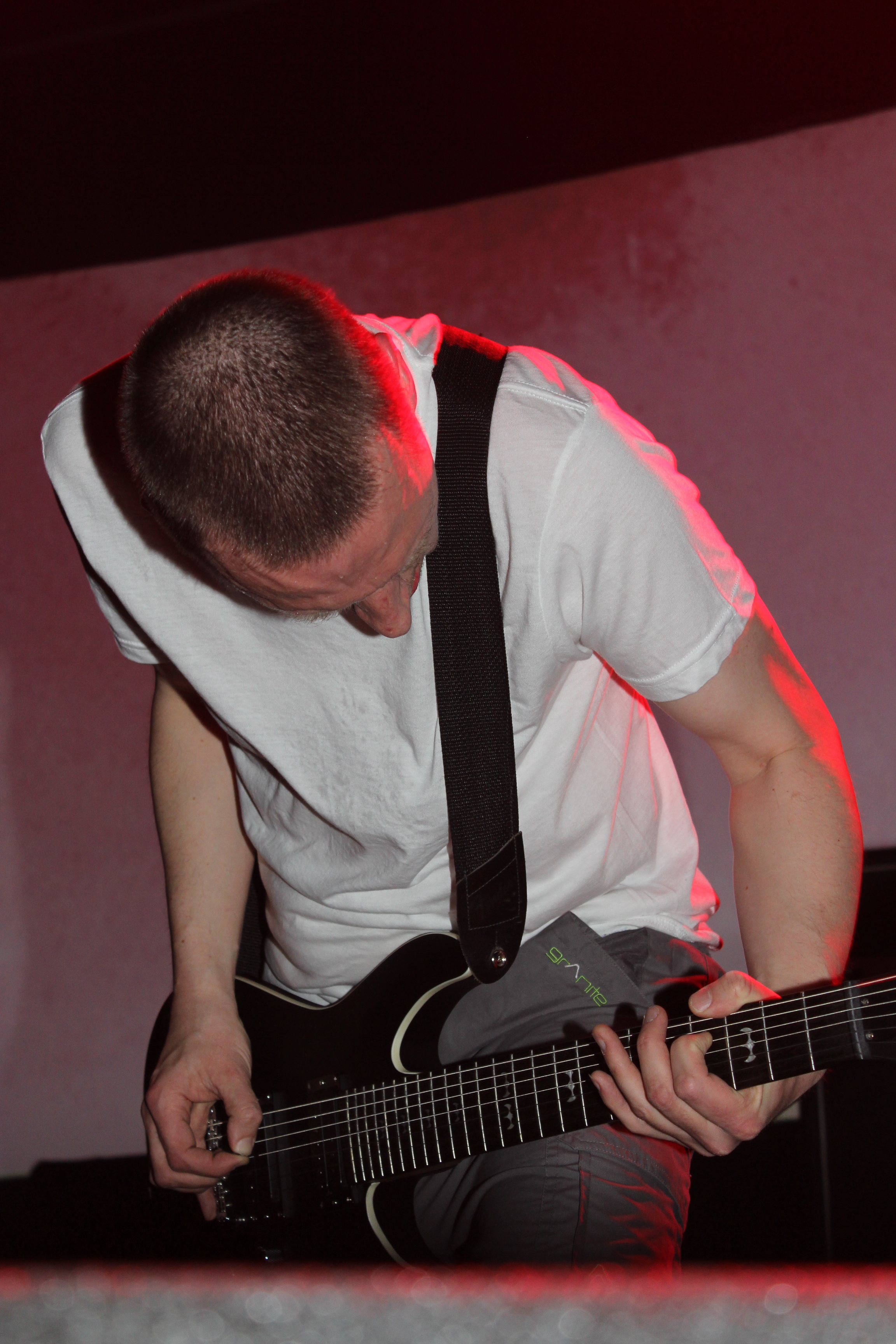 Godflesh @ Henry Fonda Theatre 4/22/14